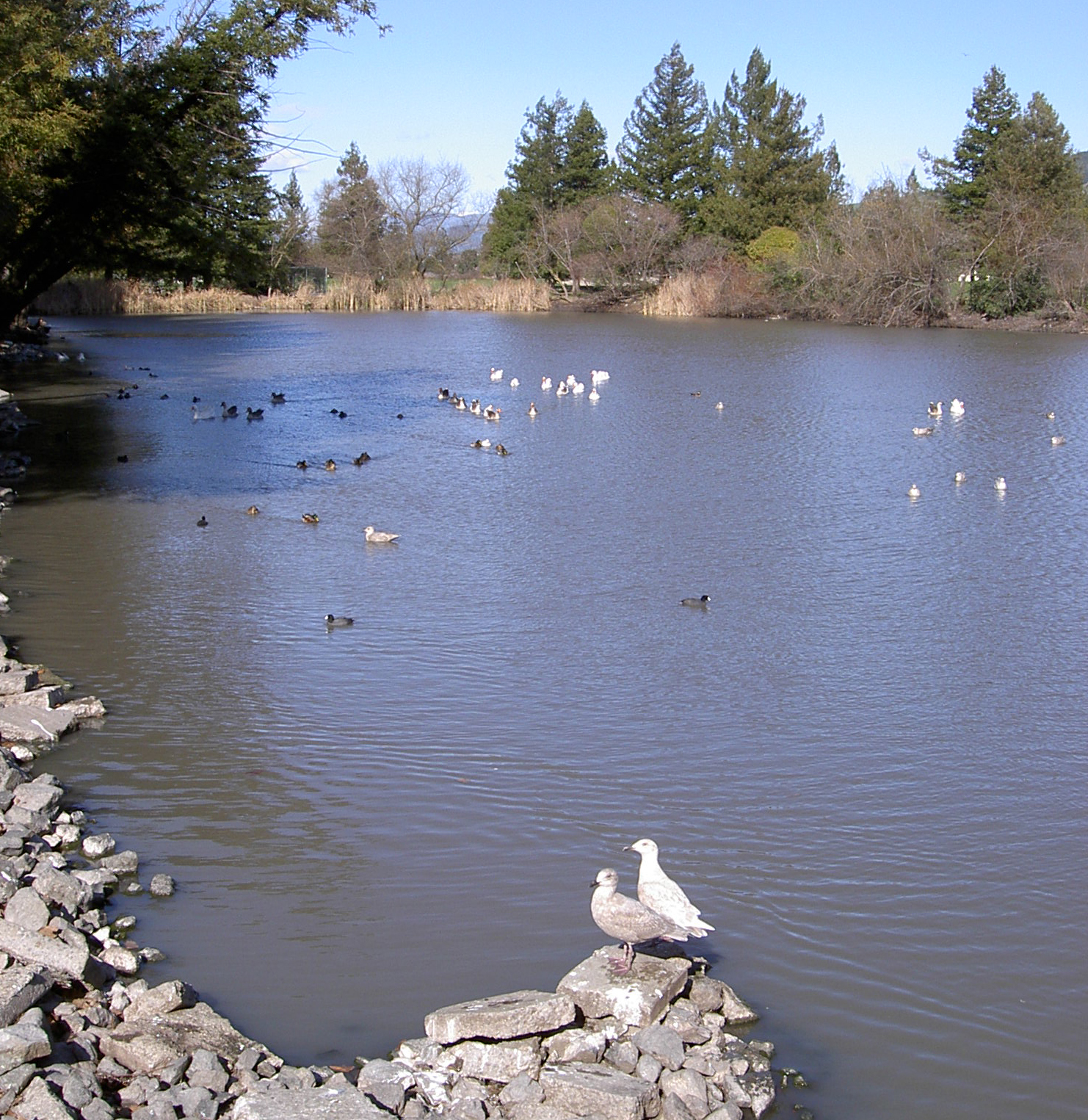 photo of Roberts Lake in Rohnert Park, cropped using Adobe Photoshop Elements